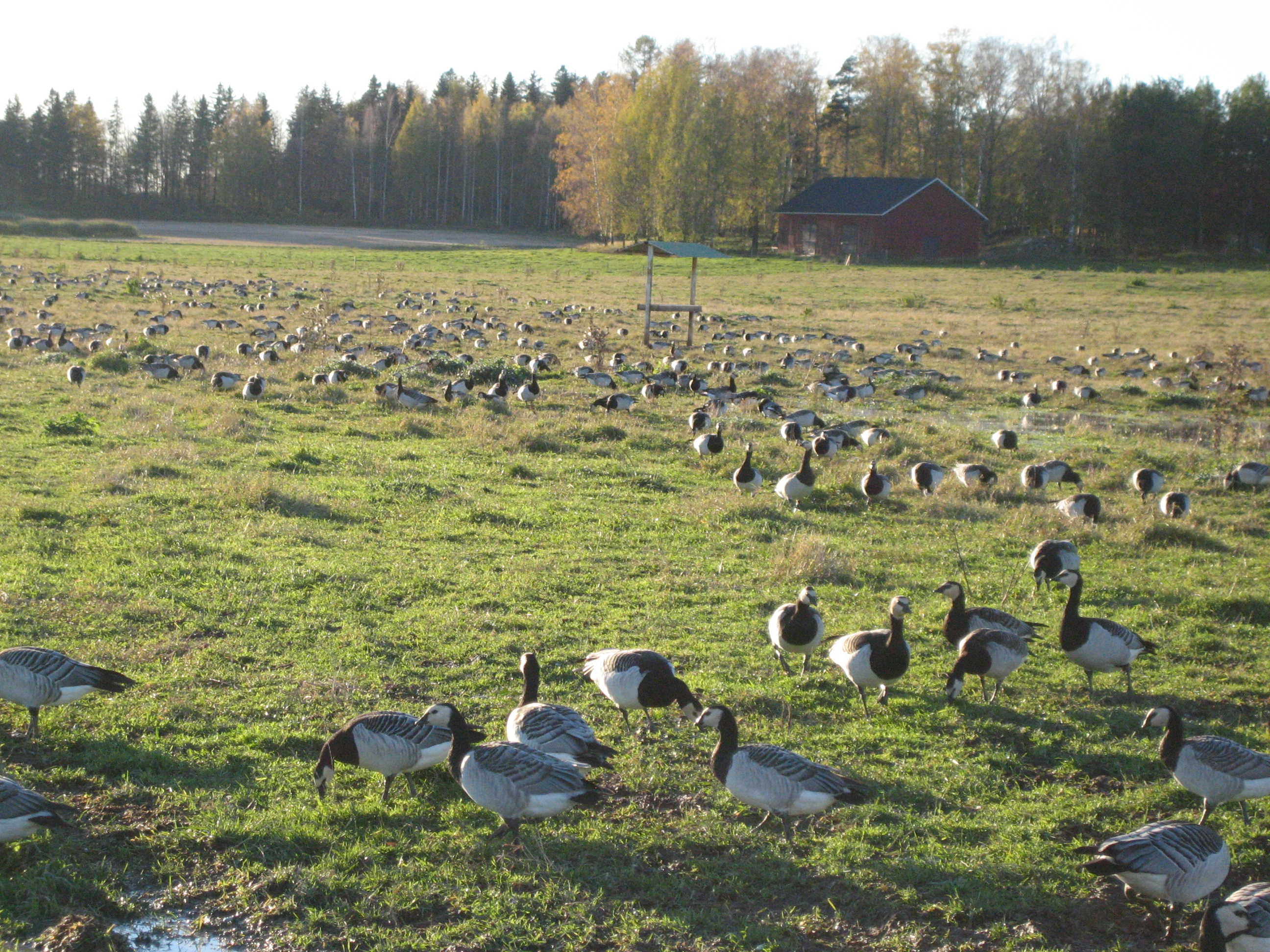 A flock of barnacle geese in the fields of the experimental farm of theUniversity of Helsinki at Viikki, Helsinki, Finland